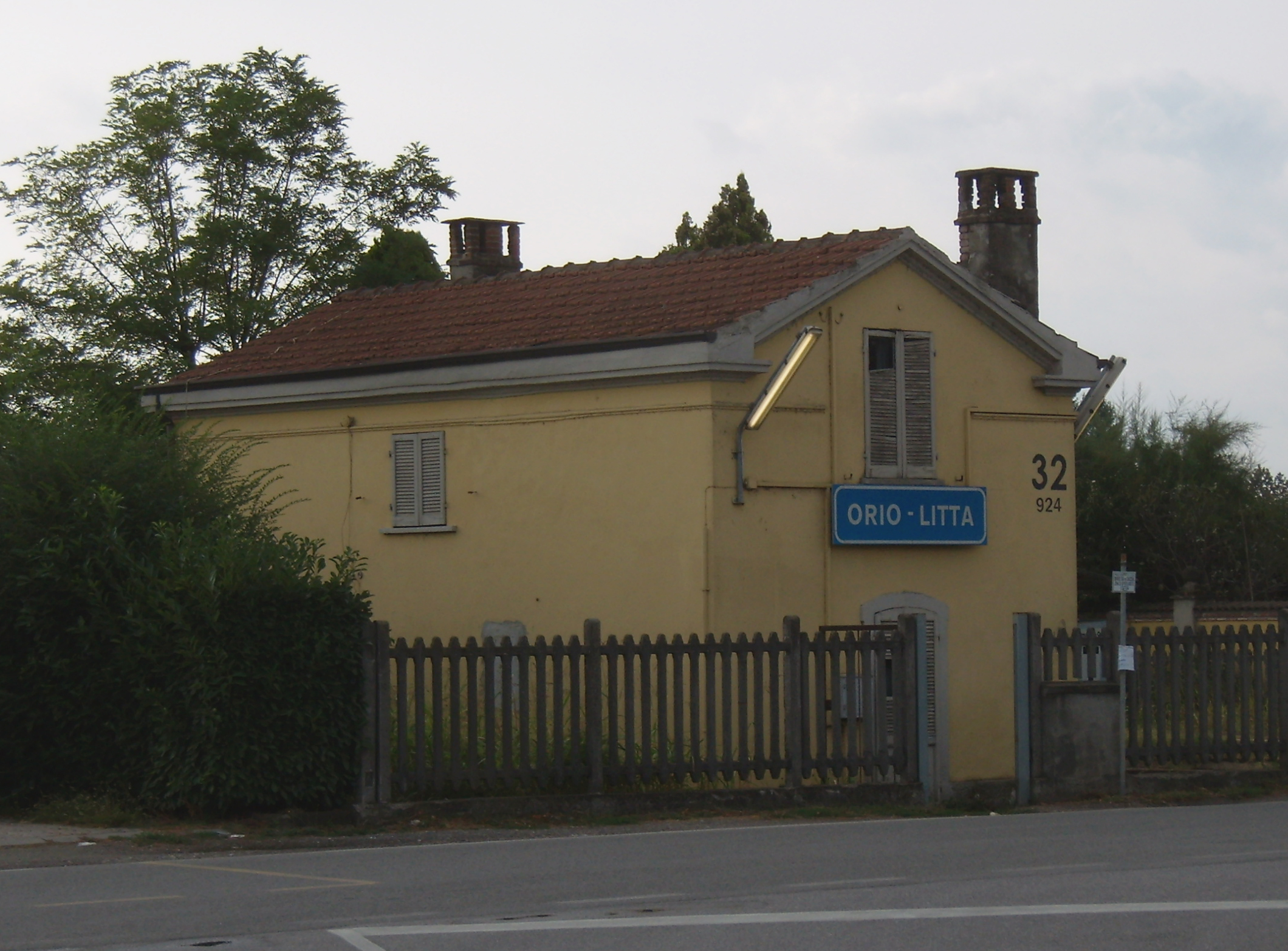 Railway station in Orio Litta, Italy.